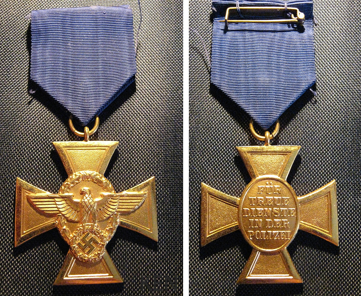 German Police Long Service Award - 25 Years (First class, Gold)